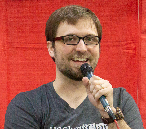 Kyle McCarley at Thy Geekdom Con 2019